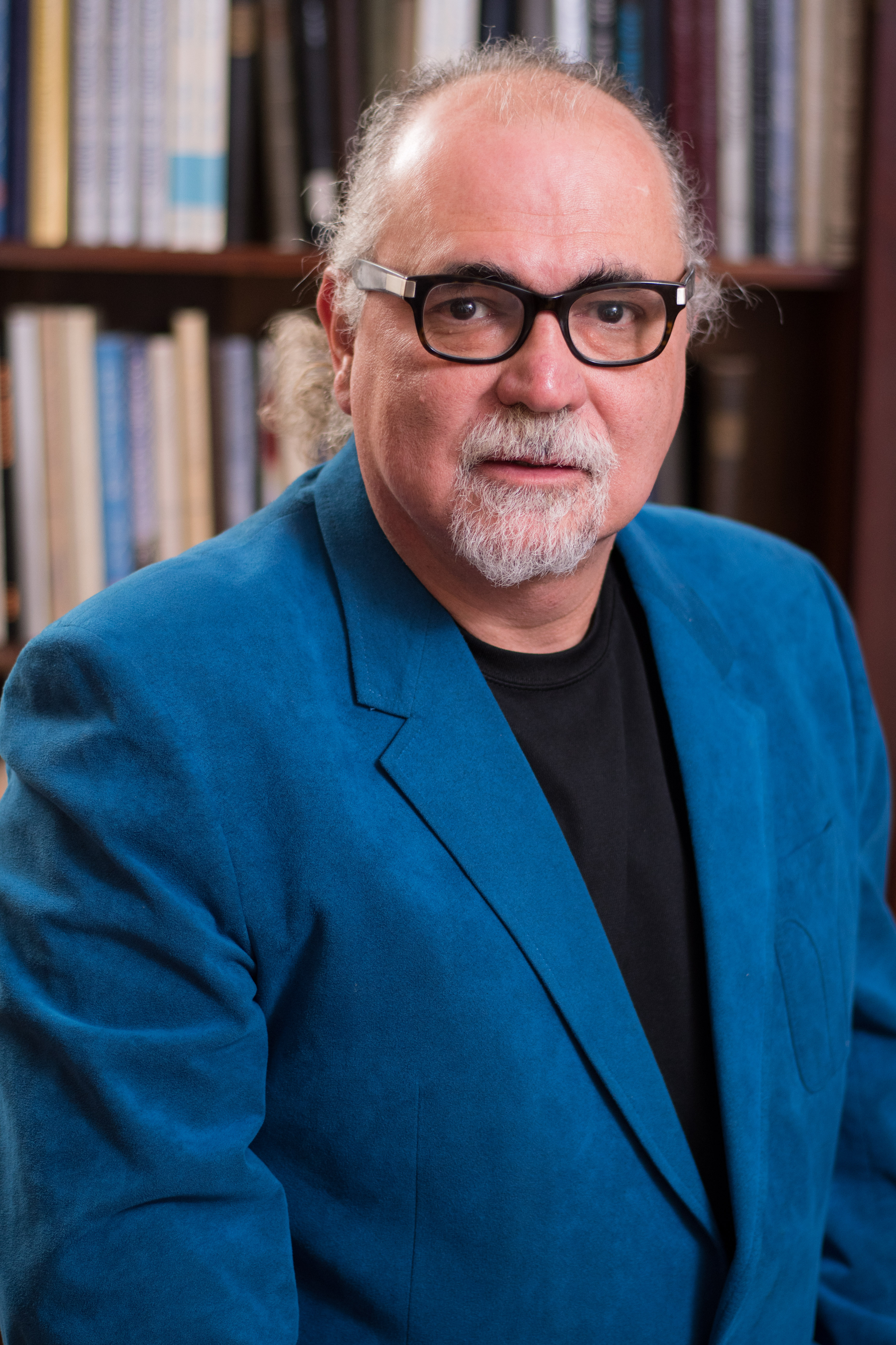 This a picture of Prof. Marcelo Godoy Simoes, Taken in 2018